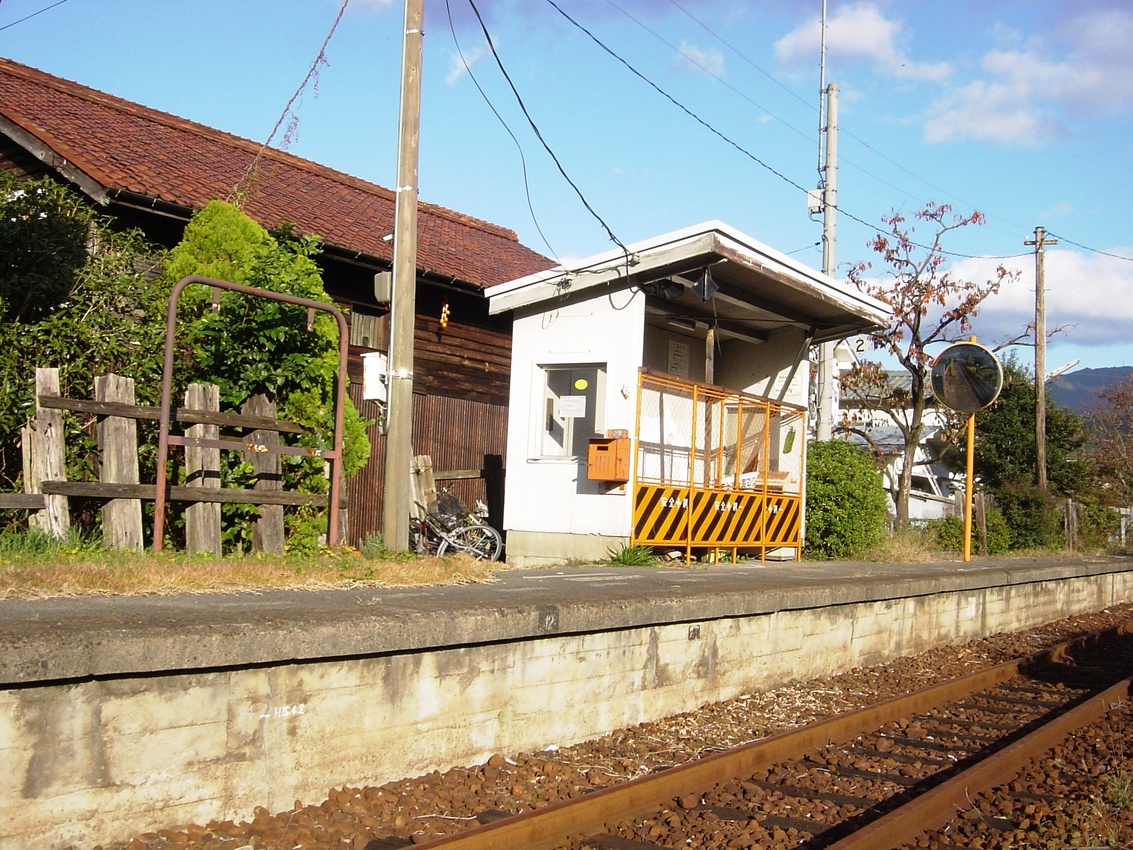 Kōdo Station at the beginning of the suspended part of the Kabe Line , formerly on the JR West Kabe Line in Hiroshima, Hiroshima Prefecture, Japan.